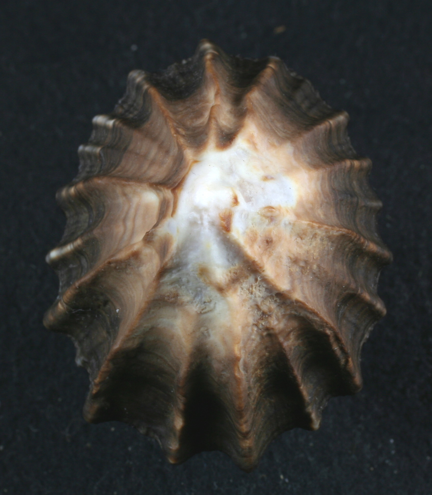 Siphonariidae: Siphonaris gigas